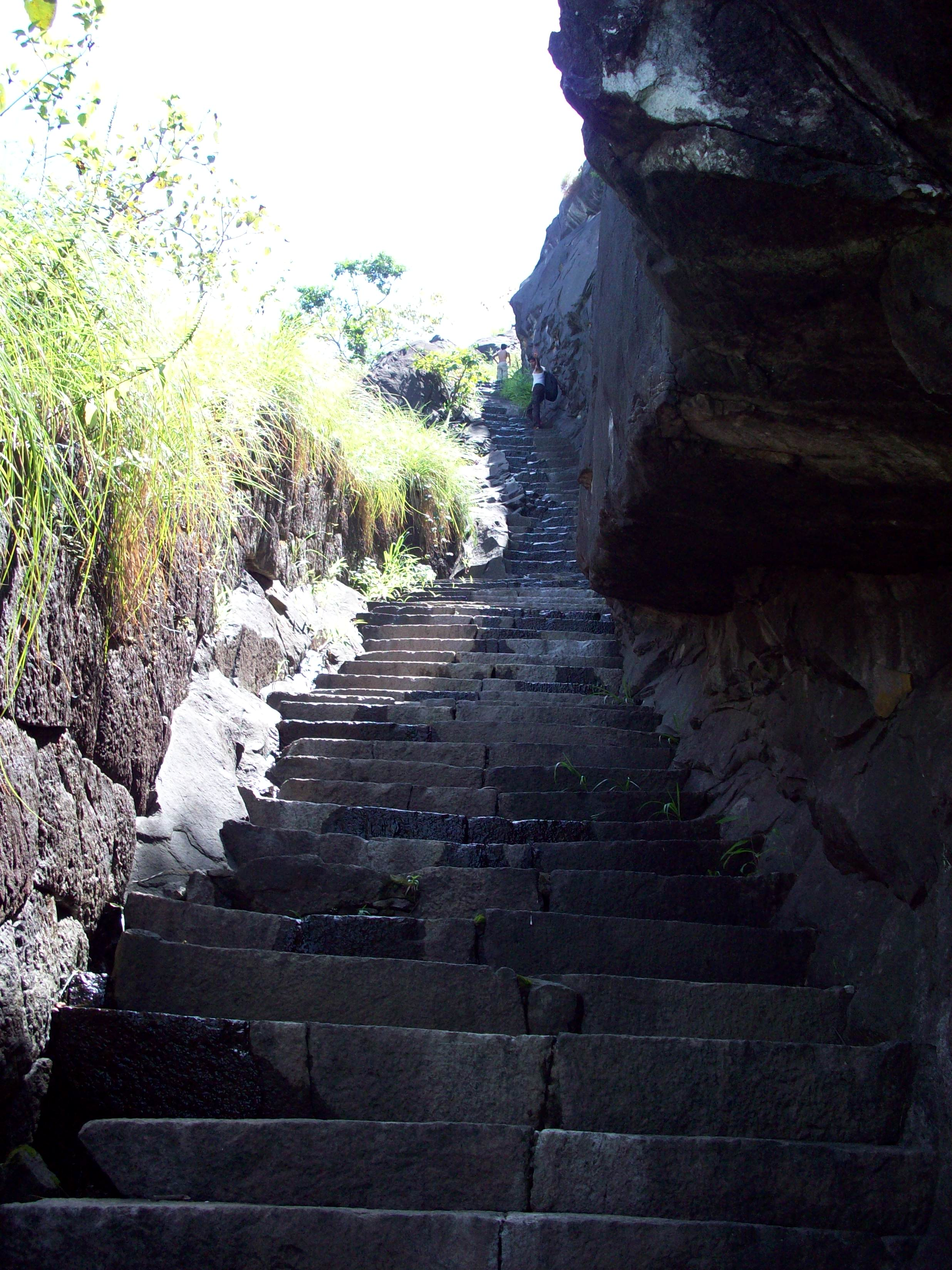 The narrow path leading upto the Jamalabad Fort